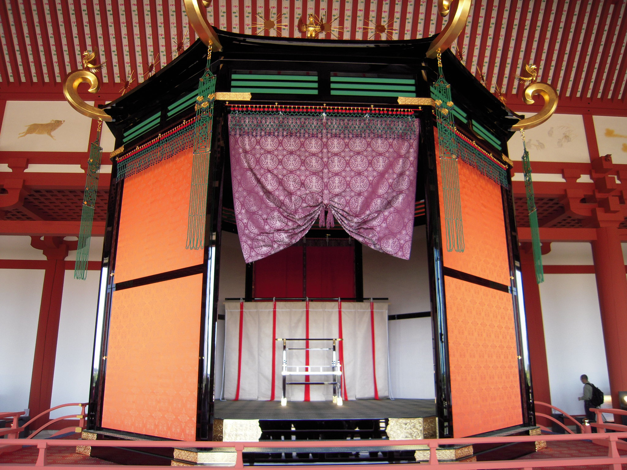 Restored Takamikura, Imperial throne of Heijo palace